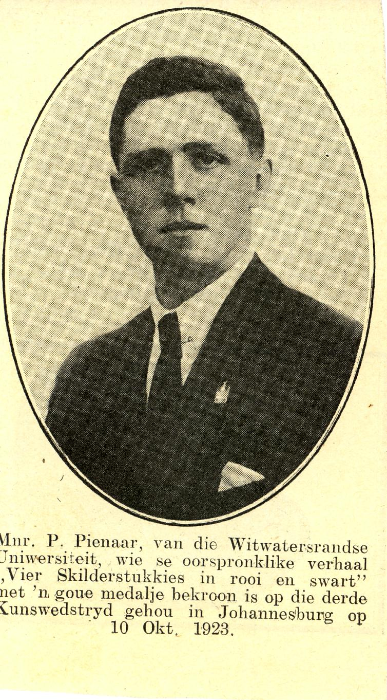 Newspaper photo from 1923. The inscription reads "Mr P Pienaar, from the University of the Witwatersrand, whose original story of "Four little paintings in red" was crowned with a gold medal at the Literature (Art) competition held in Johannesburg 10 Oct 1923".